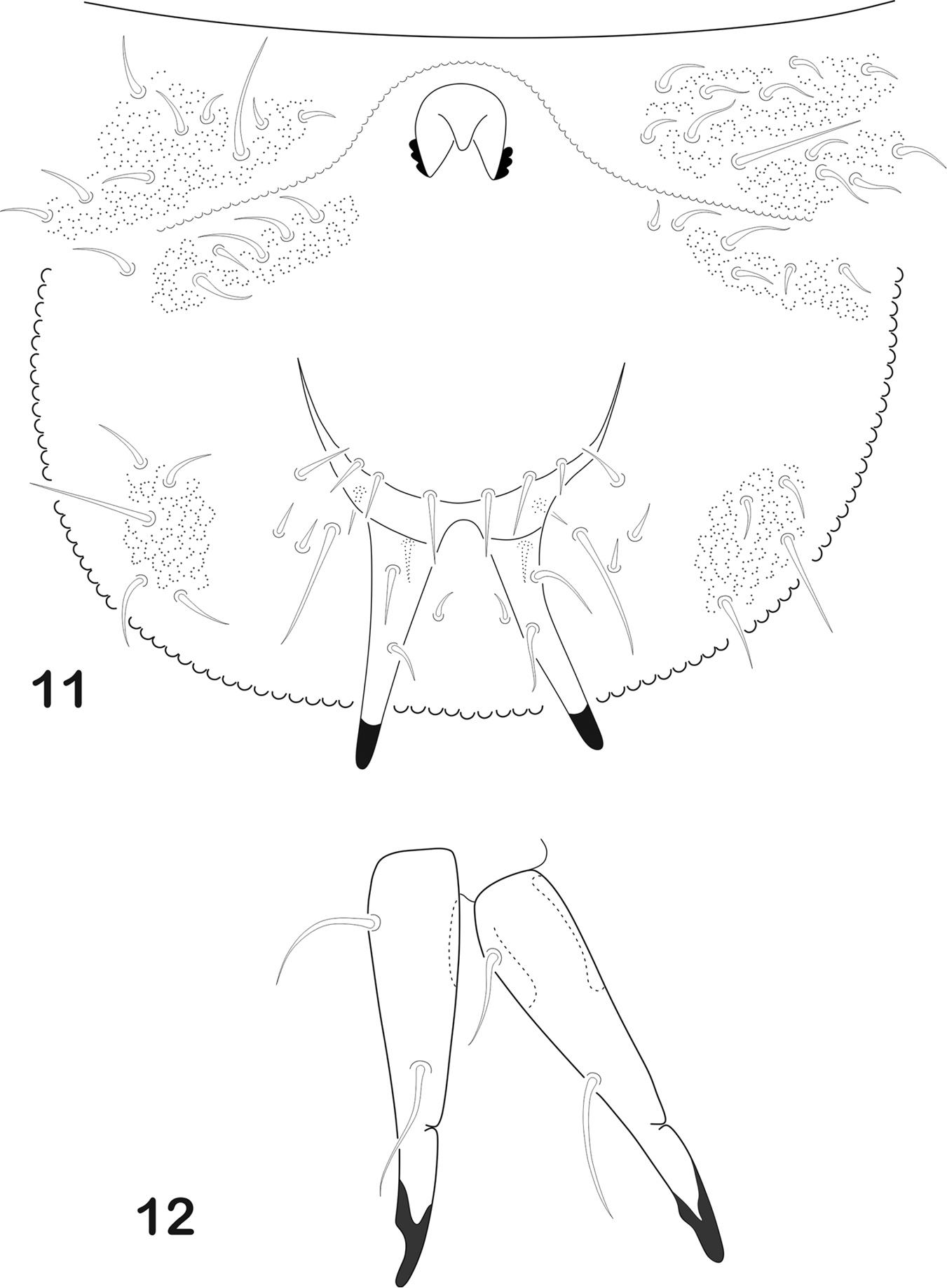 Figures 11, 12; Acheroxenylla lipsae sp. nov. 11. Ventral abdominal chaetotaxy from Abd. III to V, with retinaculum and furcula; 12. two mucrodens in lateral position.